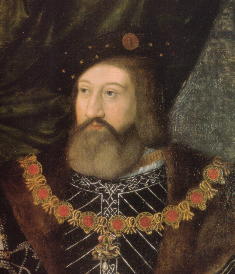 Charles Brandon, detail of potrait of Princess Mary Tudor and Charles Brandon, duke of Suffolk. There are two versions of this double portrait celebrating the marriage of Mary Tudor to her brother's closest friend. They wed secretly in 1515, a mere six weeks after her first husband's death. Mary was passionately in love and willing to risk her brother's wrath. Brandon was in love and very ambitious. Their granddaughter was the unfortunate 'Nine Days Queen', Lady Jane Grey. Brandon is wearing the collar of the Order of the Garter